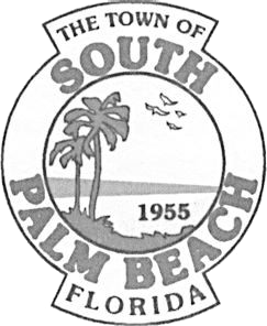 South Palm Beach seal.